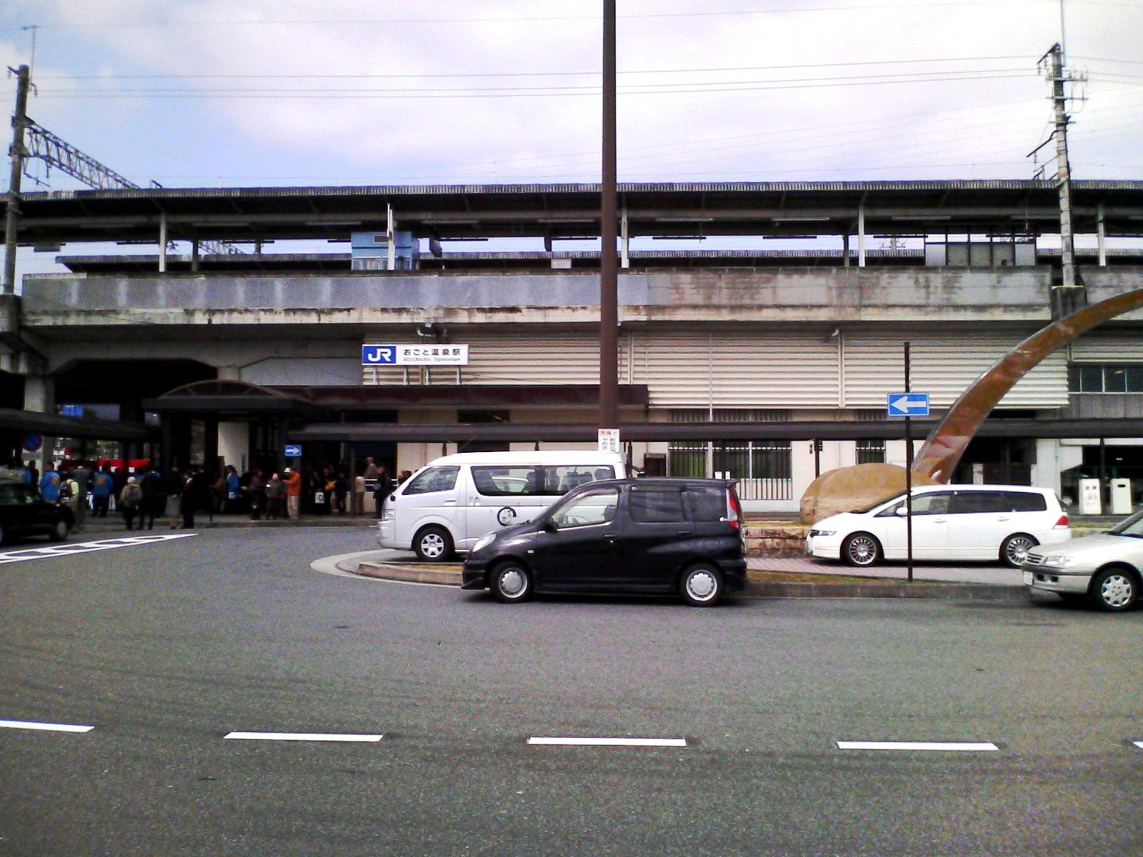 JR Ogotoonsen Station